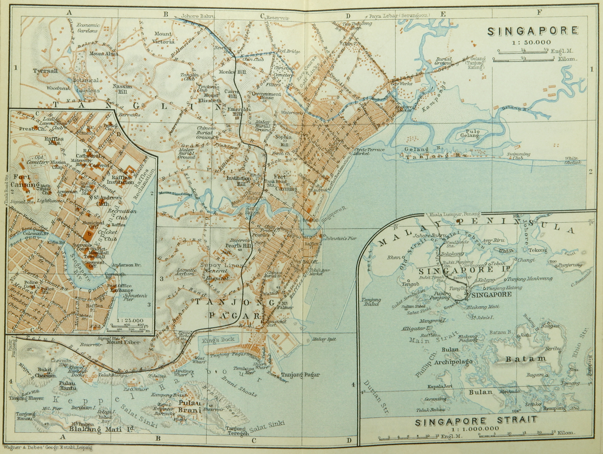 Map of the city of Singapore, ca 1914 (1:50,000), incl. small inserted maps showing the city centre (1:25,000) and the whole Strait area (1:1,000,000).